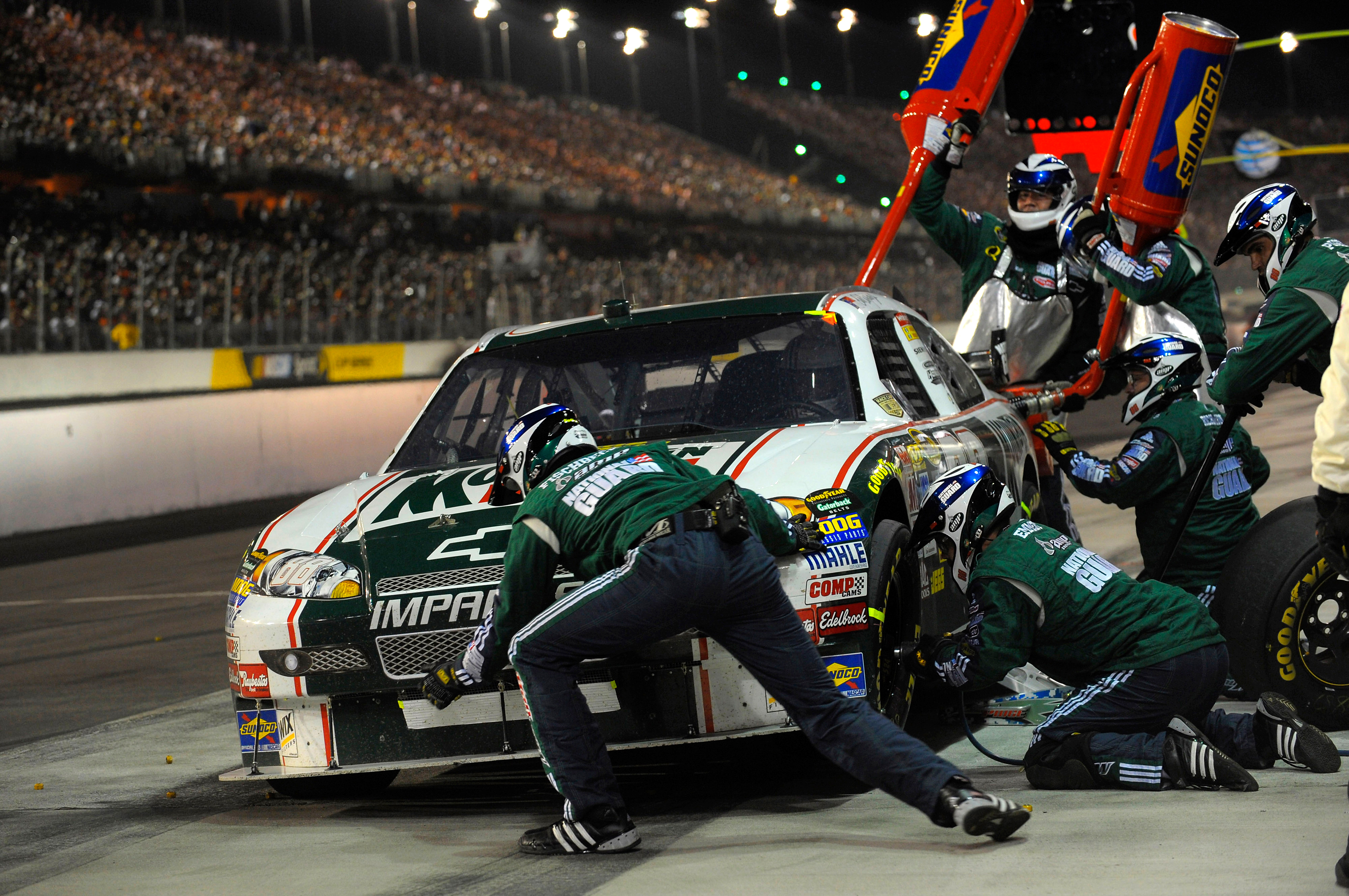 Dale Earnhardt, Jr. on pit road, as his team completes a pit stop during the 2008 Dodge Challenger 500 at Darlington Raceway on May 10, 2008.